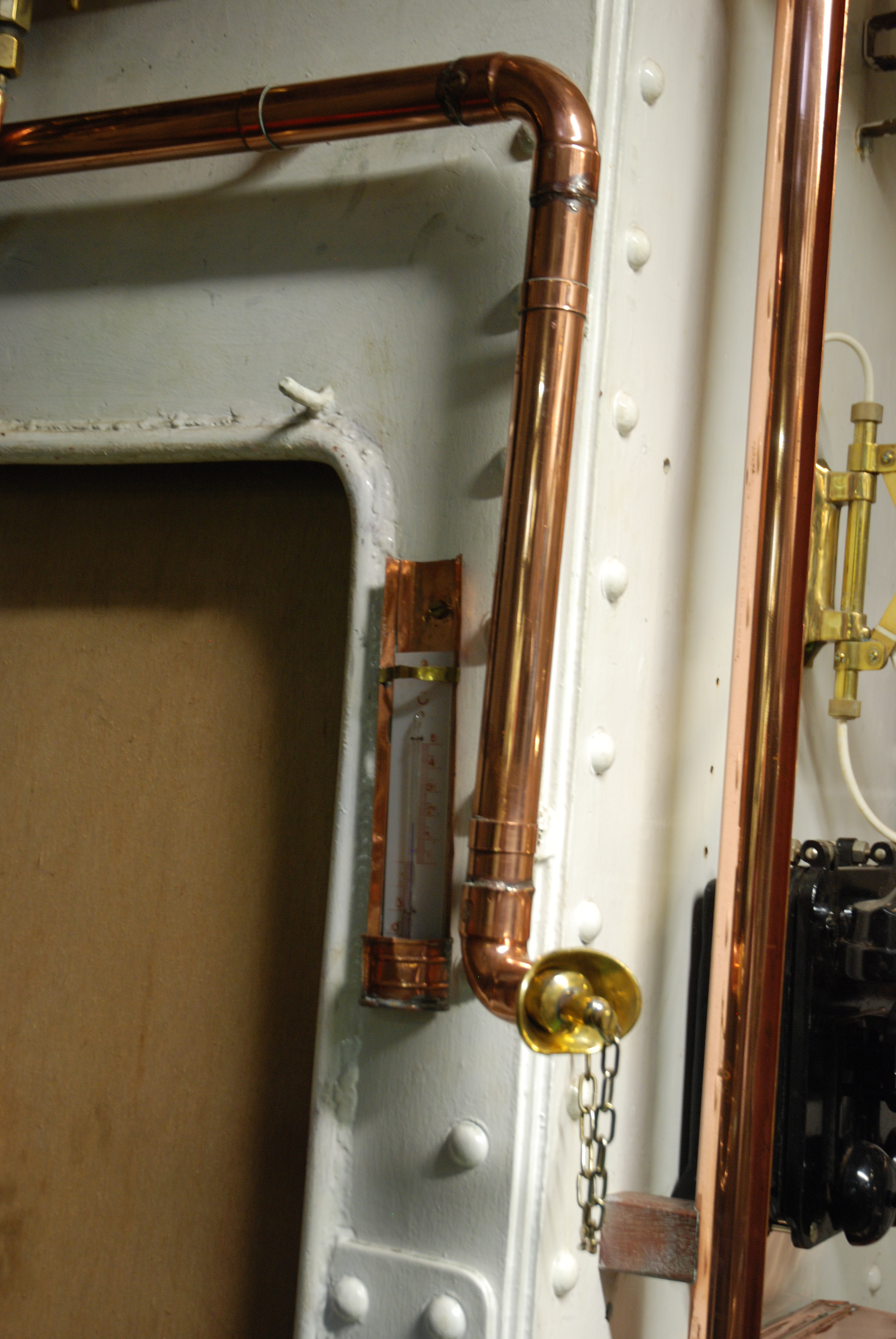 Speaking tube in the machine room of SS Orion Unknown